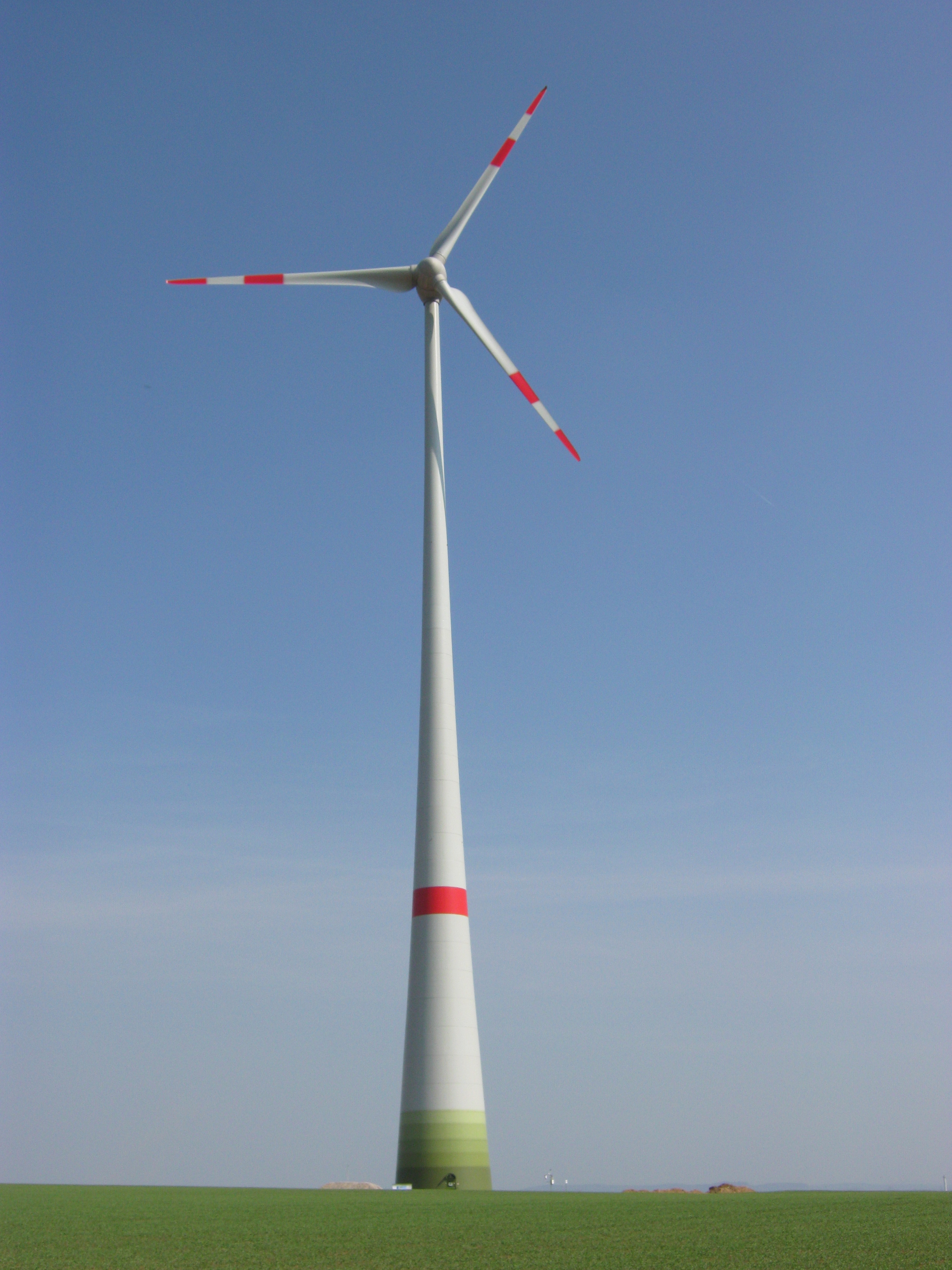 Ingersheim Wind Turbine - OpenStreetMap(Info)